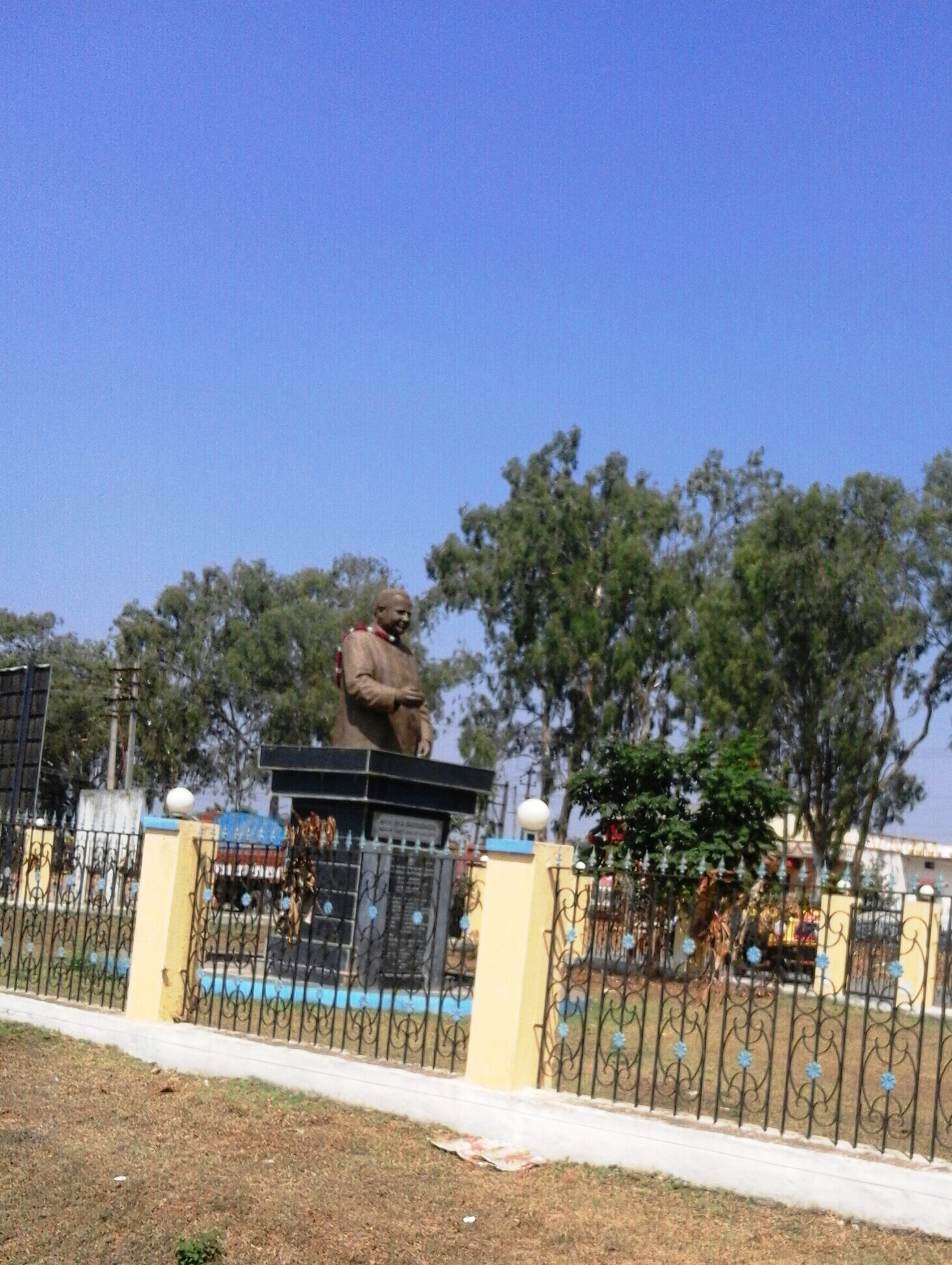 Mysore district, Karnataka state, India.